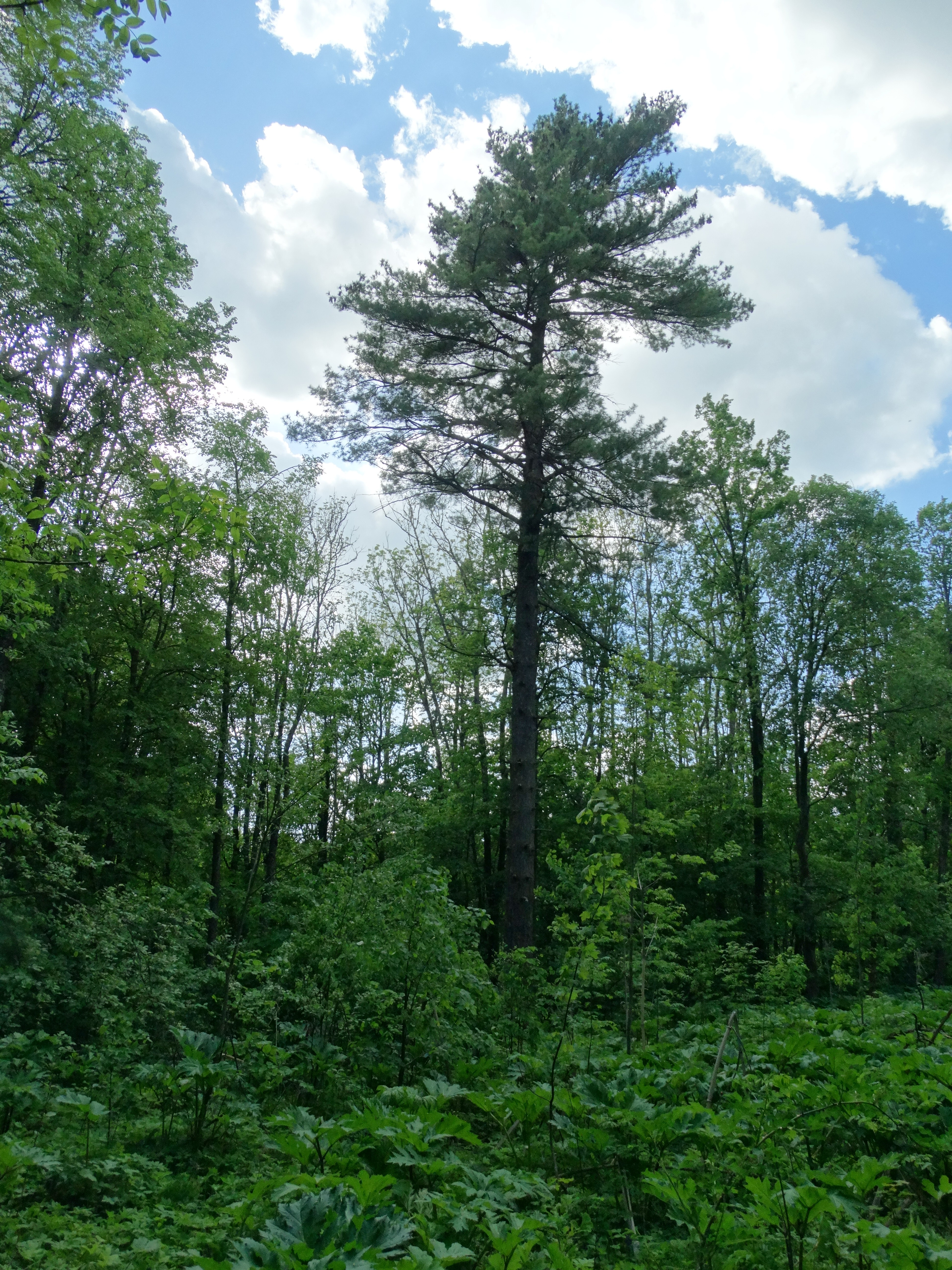 Weymouth pine, Padysnys II, Ignalina district, Lithuania